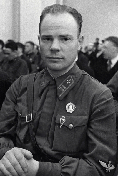 Twice Hero of the Soviet Union Sergey Ivanovich Gritsevets.